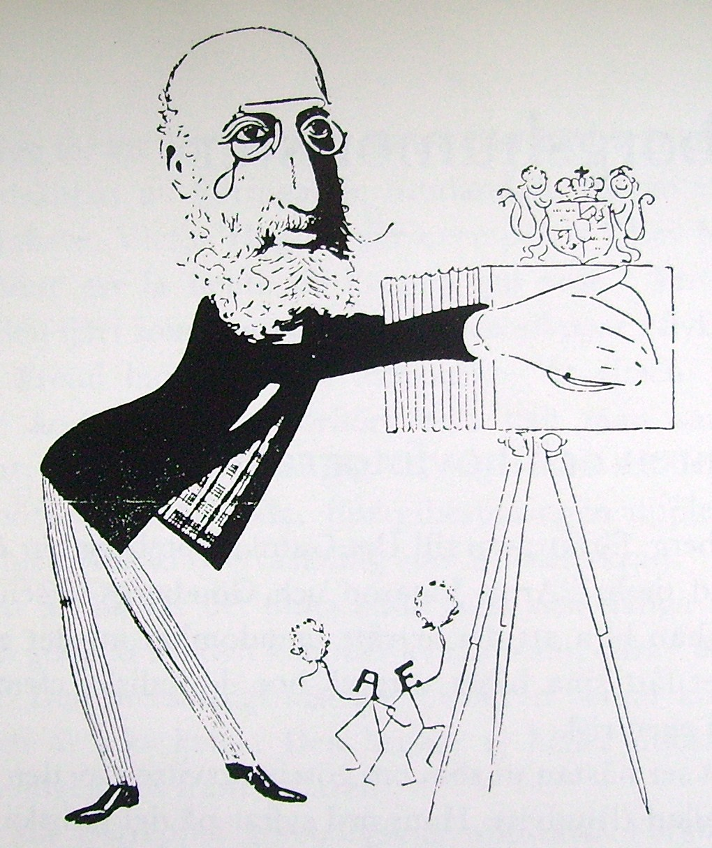 Picture of drawning of Aron Jonason, Swedish humorist and photographer